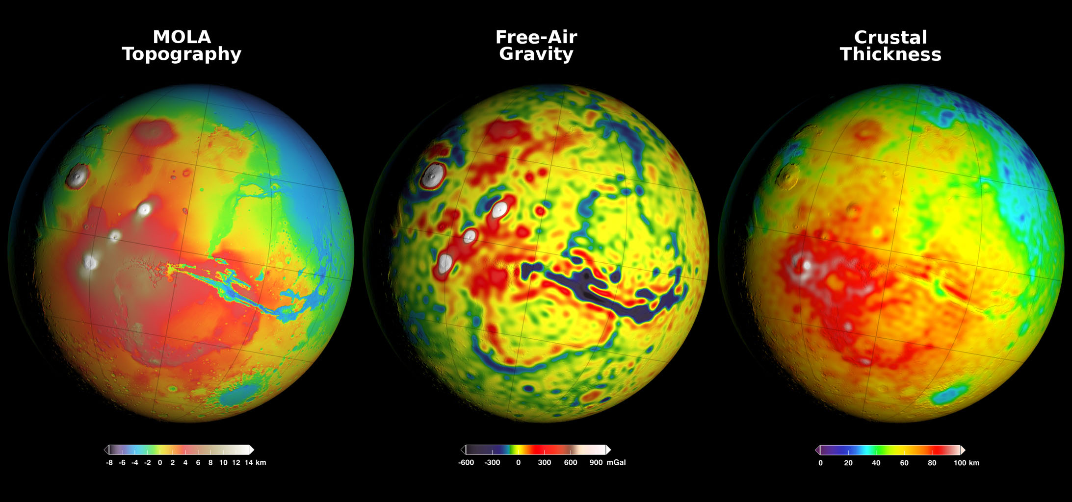 Newly detailed mapping of local variations in Mars' gravitational pull on orbiters (center), combined with topographical mapping of the planet's mountains and valleys (left) yields the best-yet mapping of Mars' crustal thickness (right). The data come from many years of using NASA's Deep Space Network to track positions and velocities of NASA's Mars Global Surveyor, Mars Odyssey and Mars Reconnaissance Orbiter. These three views of global mapping are centered at 90 degrees west longitude, showing portions of the planet that include tall volcanoes on the left and the deep Valles Marineris canyon system just right of center. Additional views of these global maps are available at